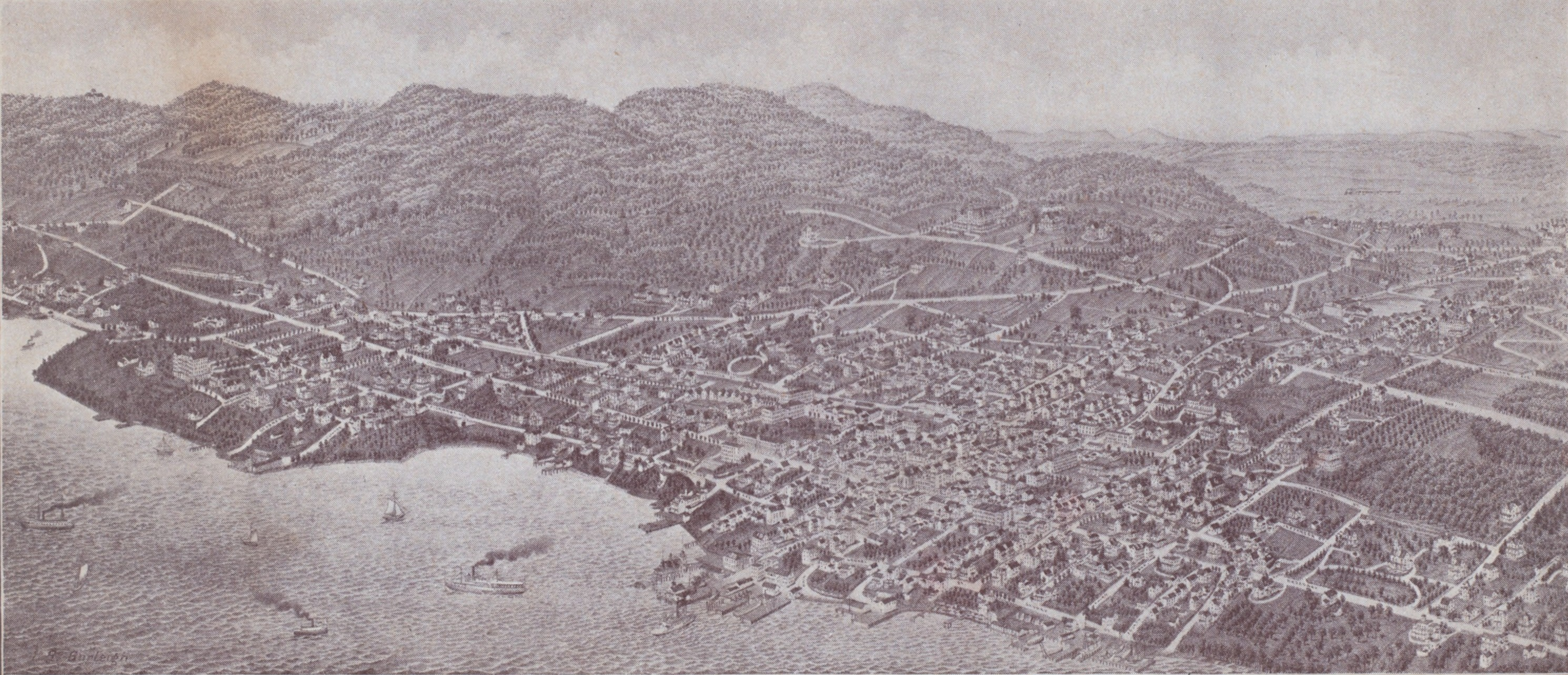 INCLUDES COMMITTEES & GUESTS LISTS; TOASTS; DECORATIVE BORDER; SILK RIBBON ATTACHMENTS